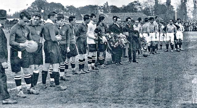 Spanish national football team before the friendly match against France in Bordeaux, 1922